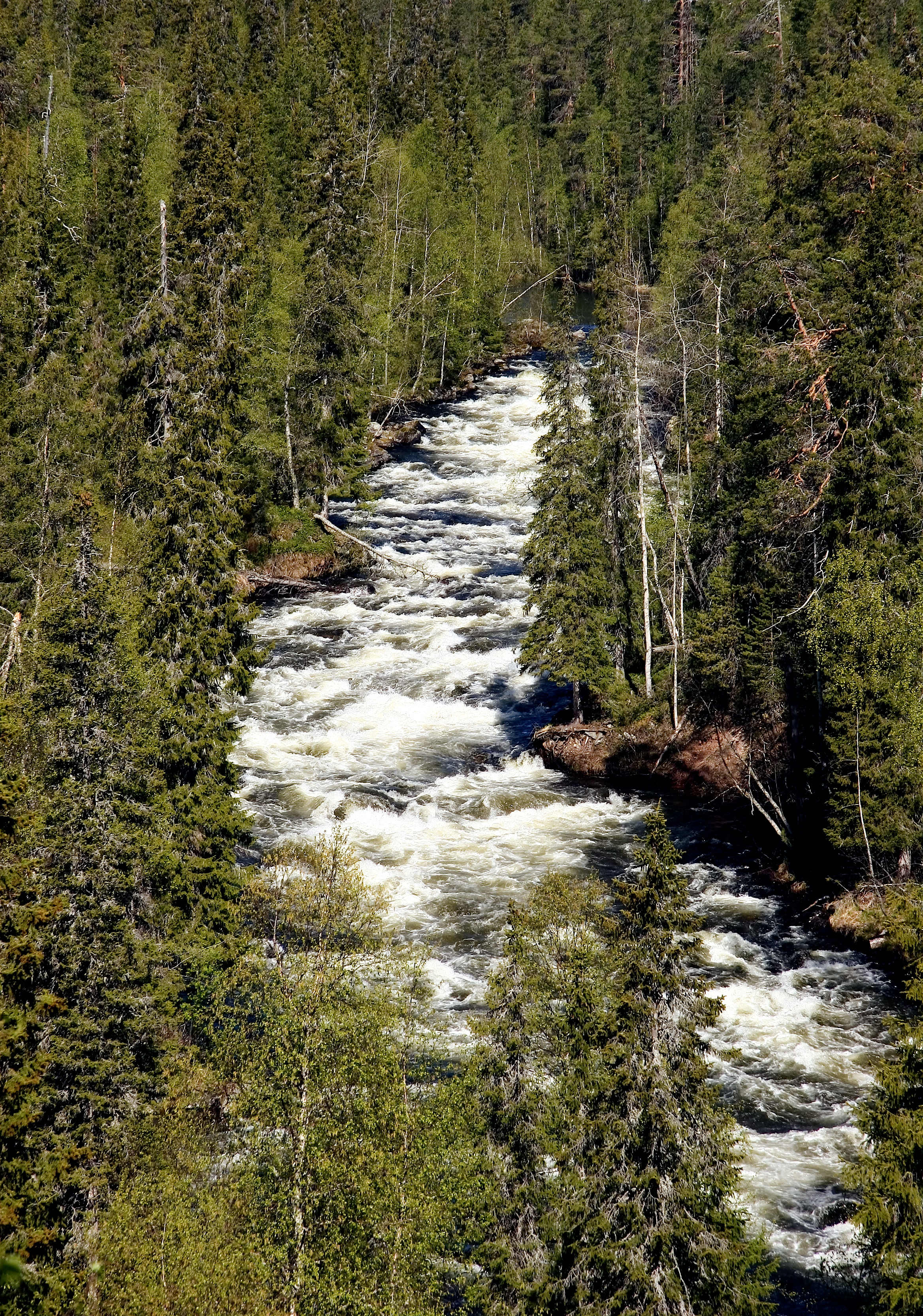 Aallokkokoski rapids of Kitkajoki river in Oulanka National Park, Kuusamo, Finland